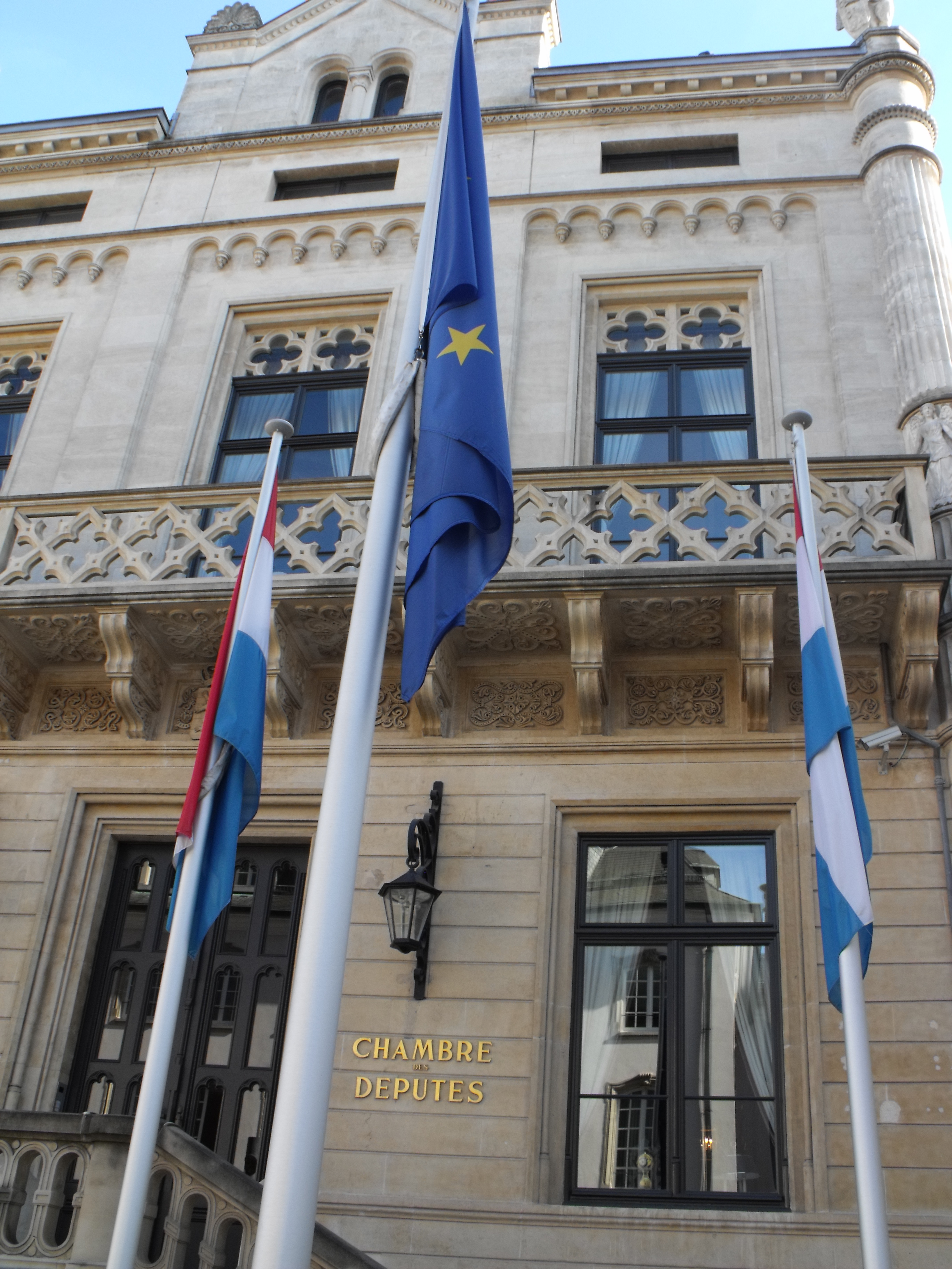 Parliament of Luxembourg